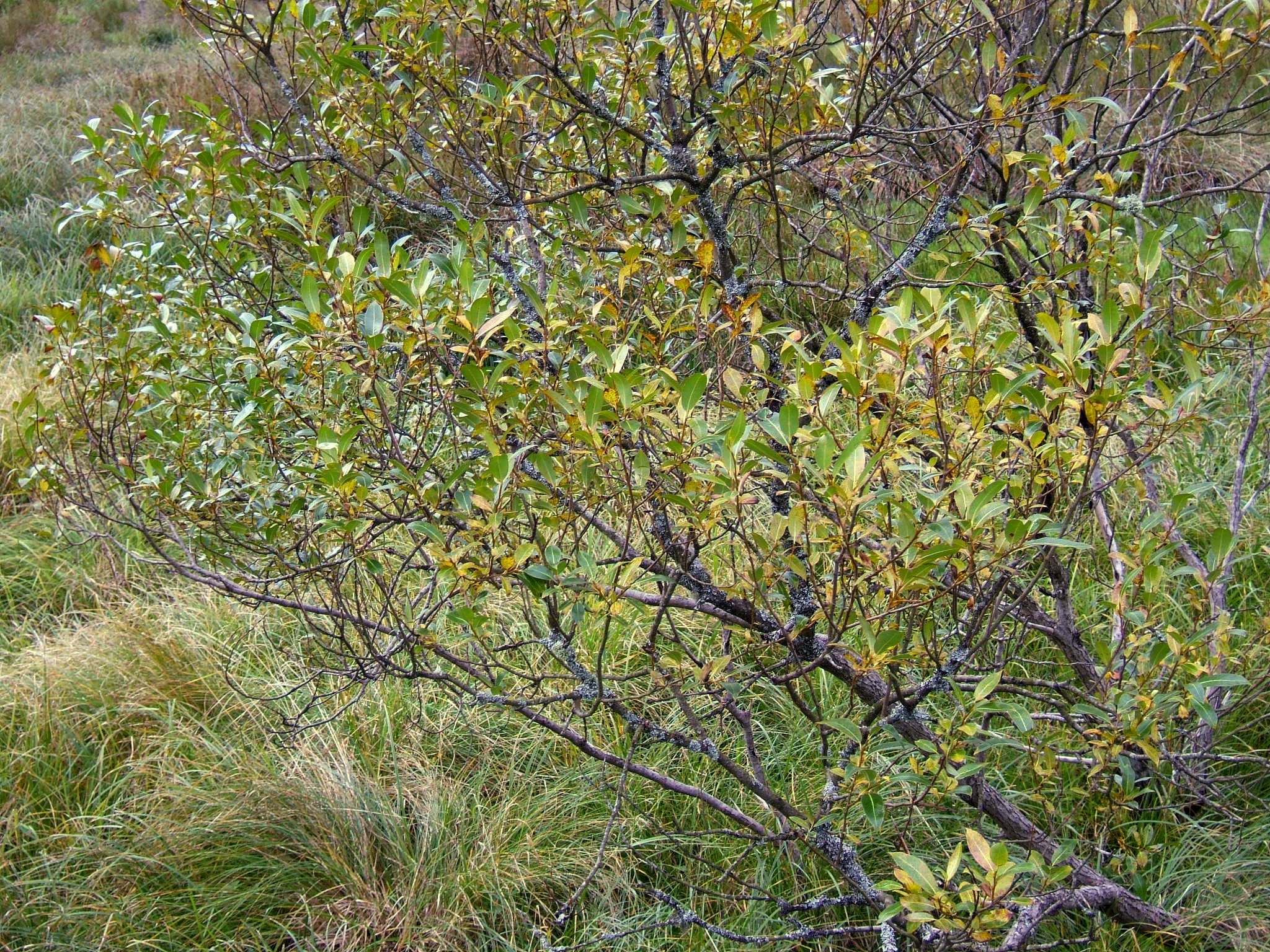 Salix pentandra growing wild, Kielder, Northumberland, England; autumn 2005